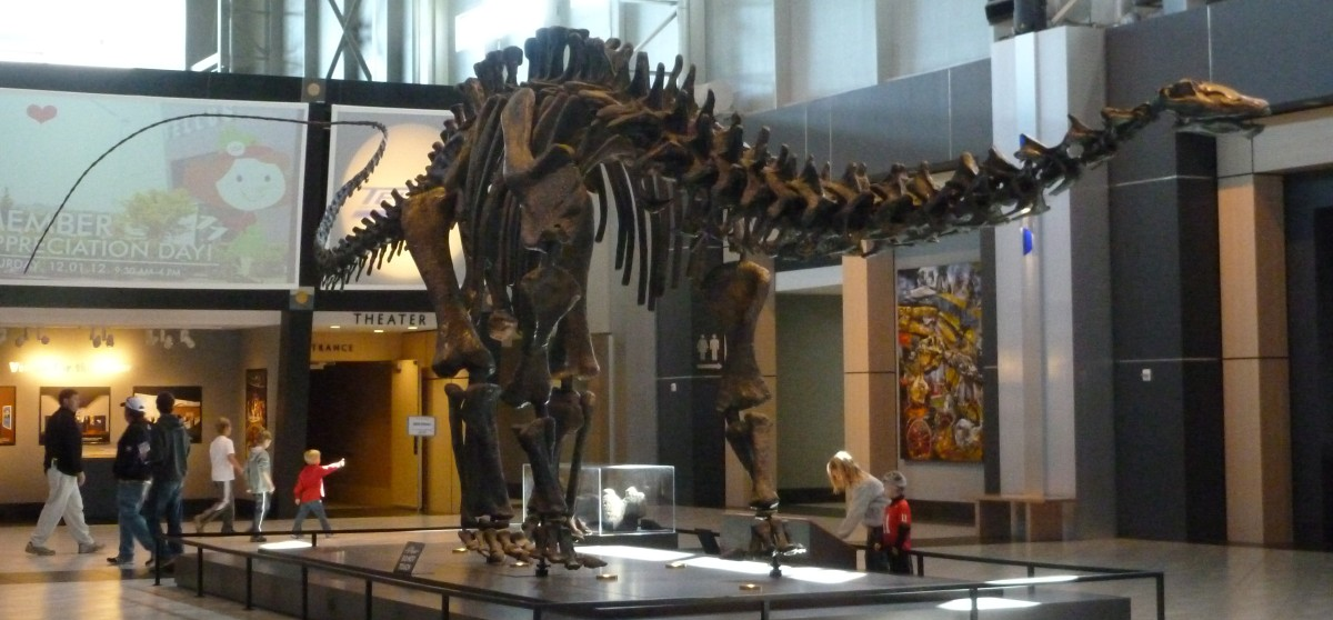 Cast of Brontosaurus parvus specimen UWGM 15556 (formerly Apatosaurus excelsus) at the Tellus Science Museum.